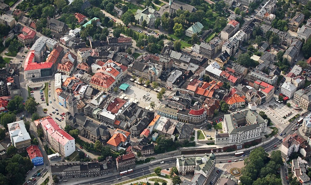 Aerial photography of Bielsko-Biała Old Town.